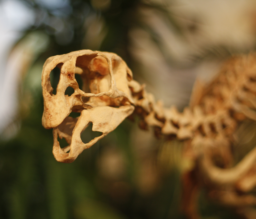 Conchoraptor